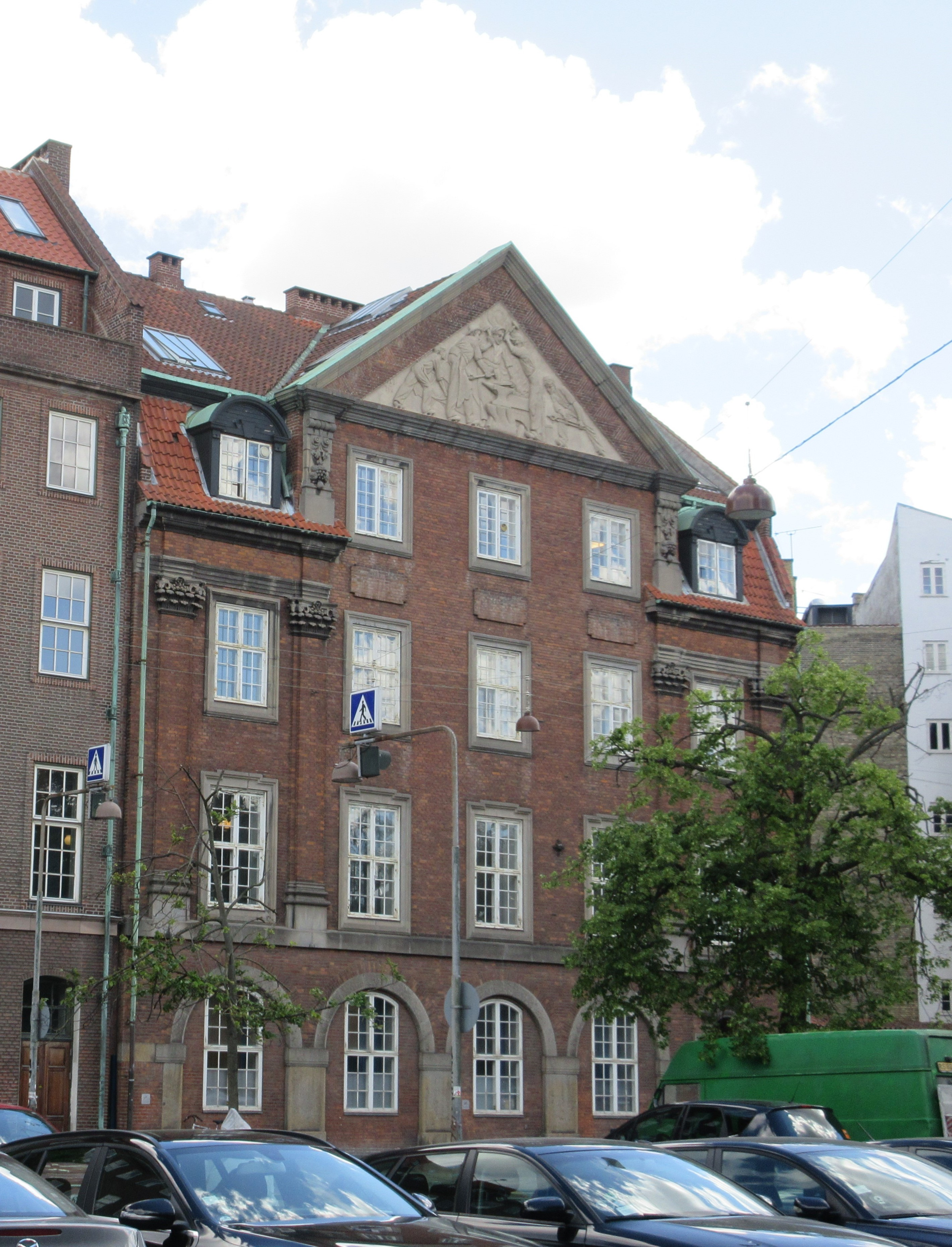 Foreningen af Fabrikanter i Jernindustrien i København's former building at Nørre Voldgade 30 in Copenhagen, Denmark